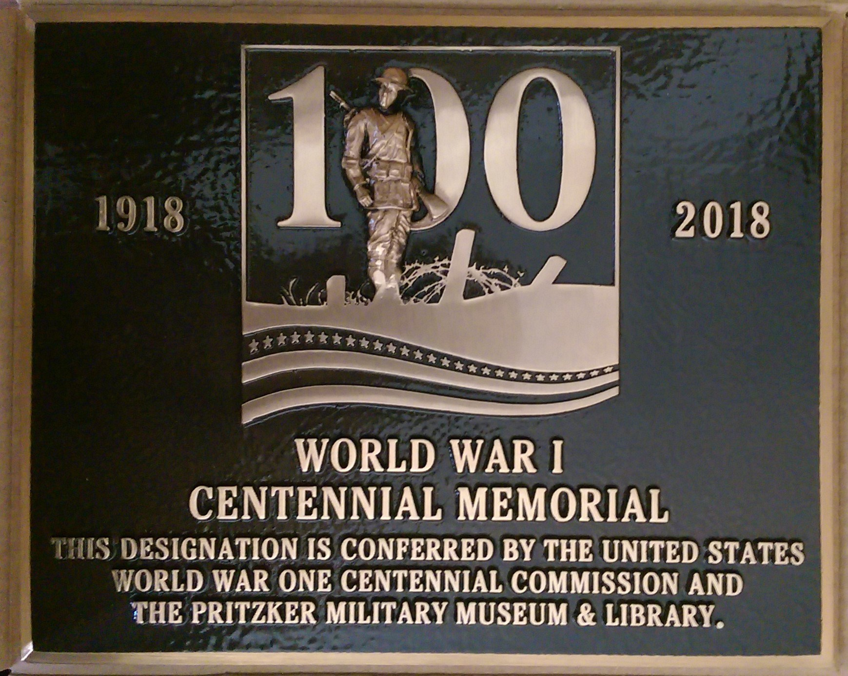 Recognition of the Fort Caswell Rifle Range by the WWi Centennial Commission